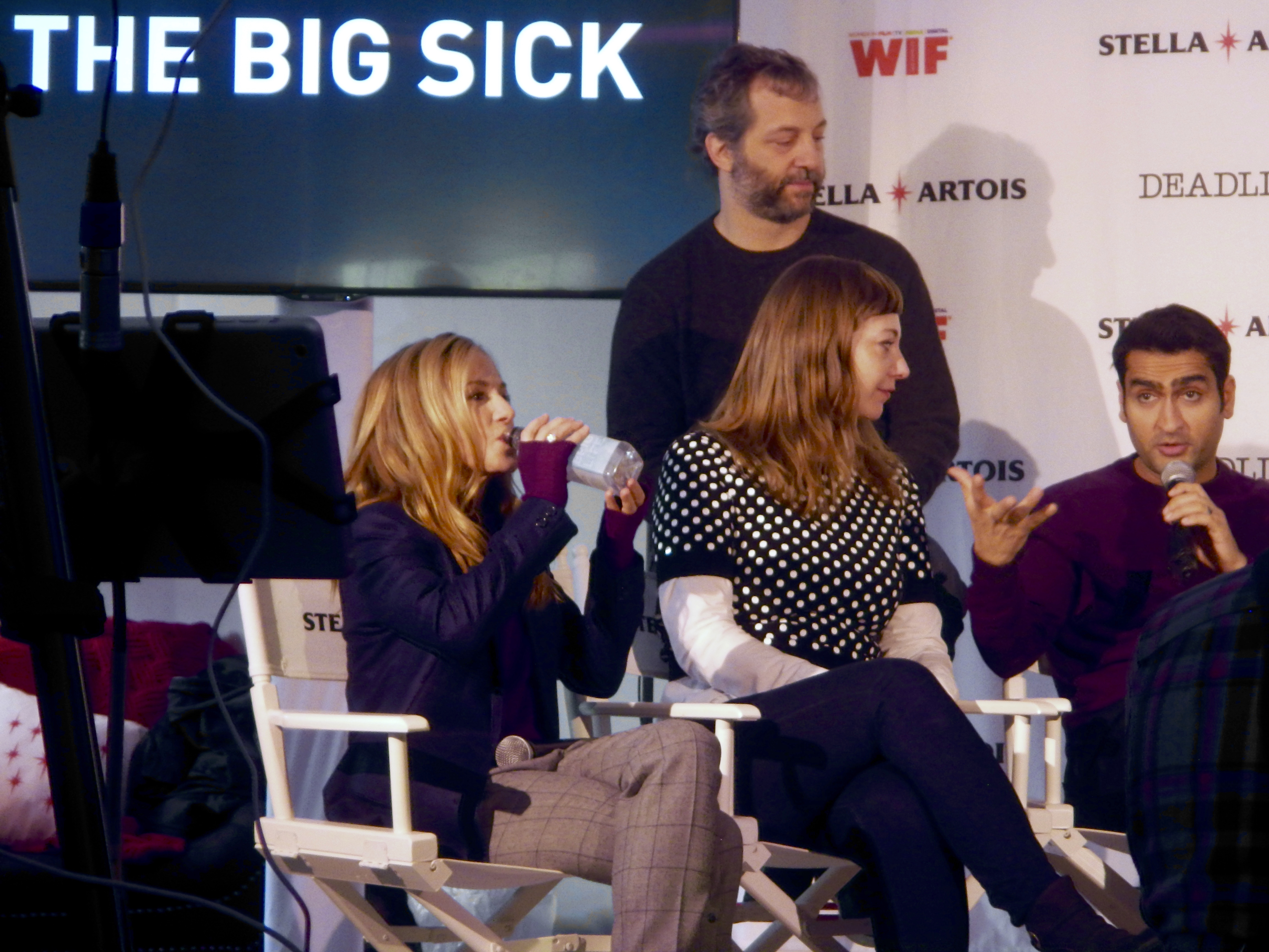 "The Big Sick" panel at Sundance 2017, Park City UT